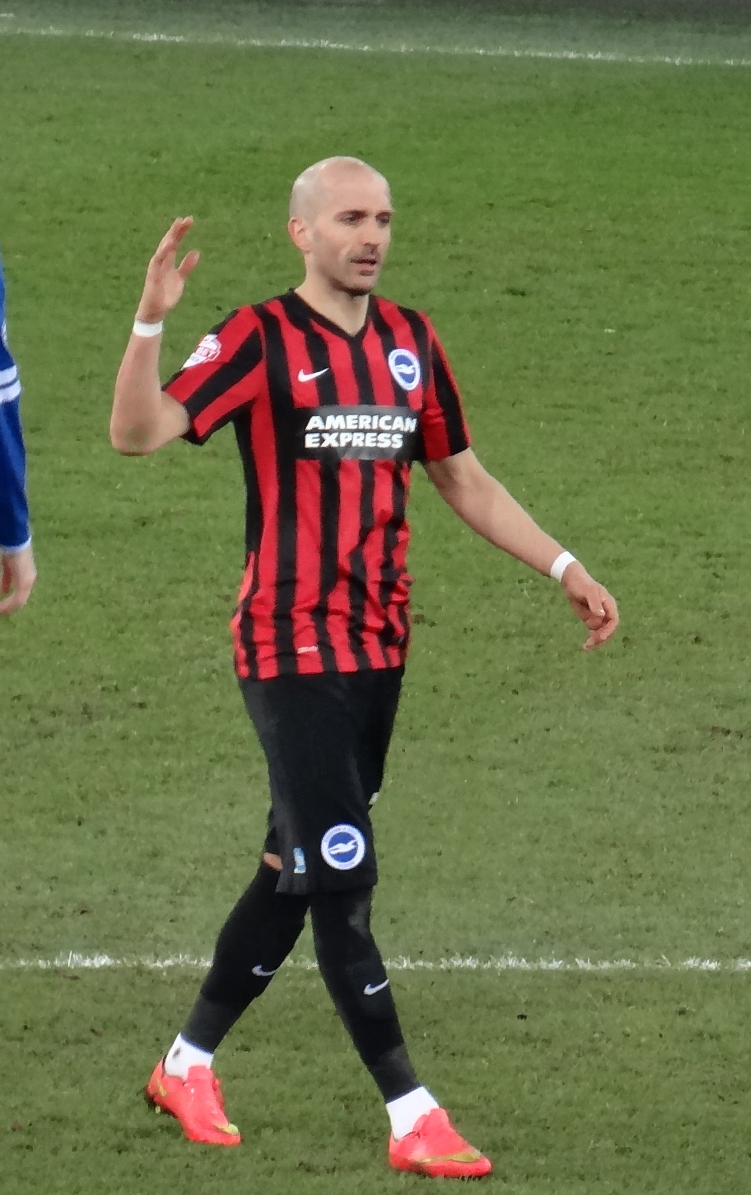 Footballer Bruno in 2015